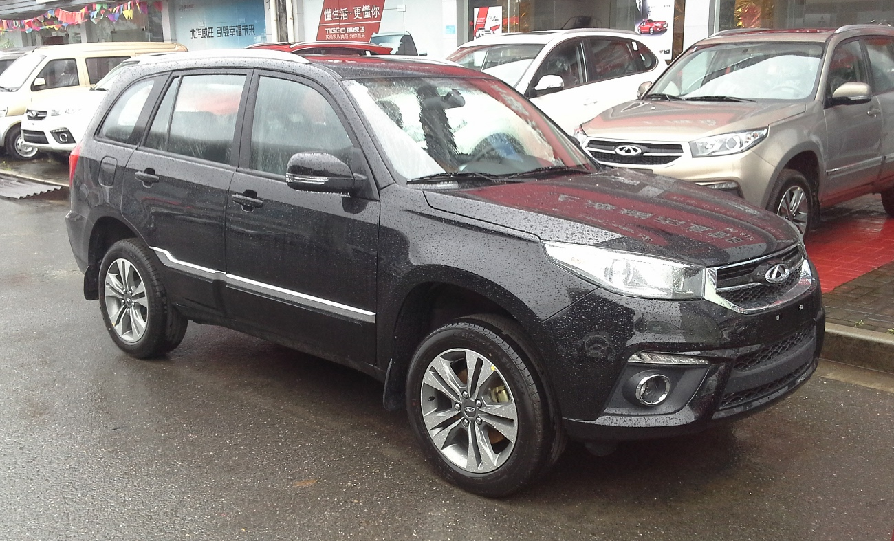 Chery Tiggo 3 facelift photographed in Shanghai, China.